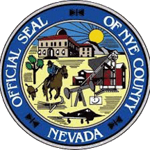 Flag of Nye County, Nevada